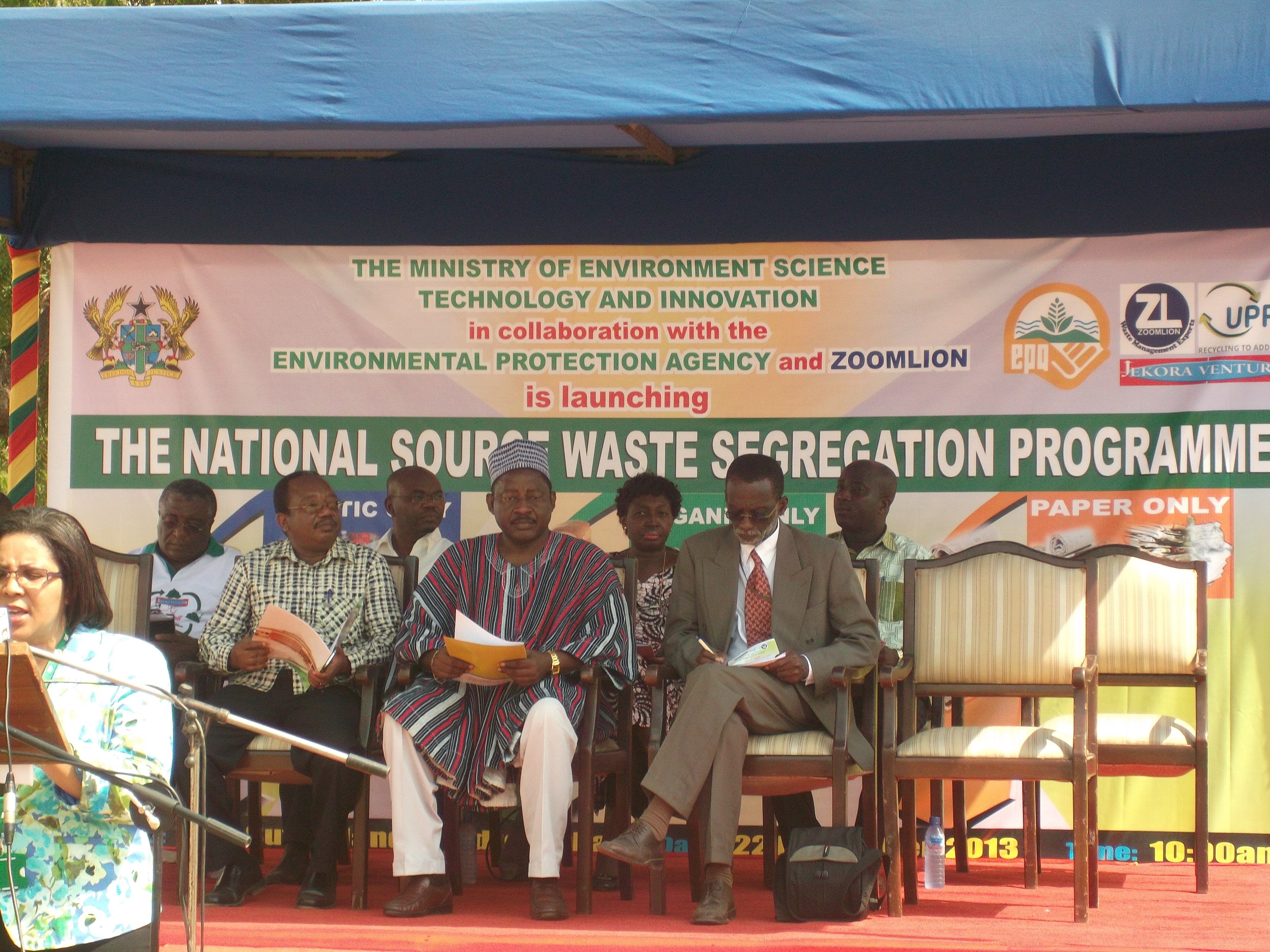 Launching of Waste Segregation in Accra